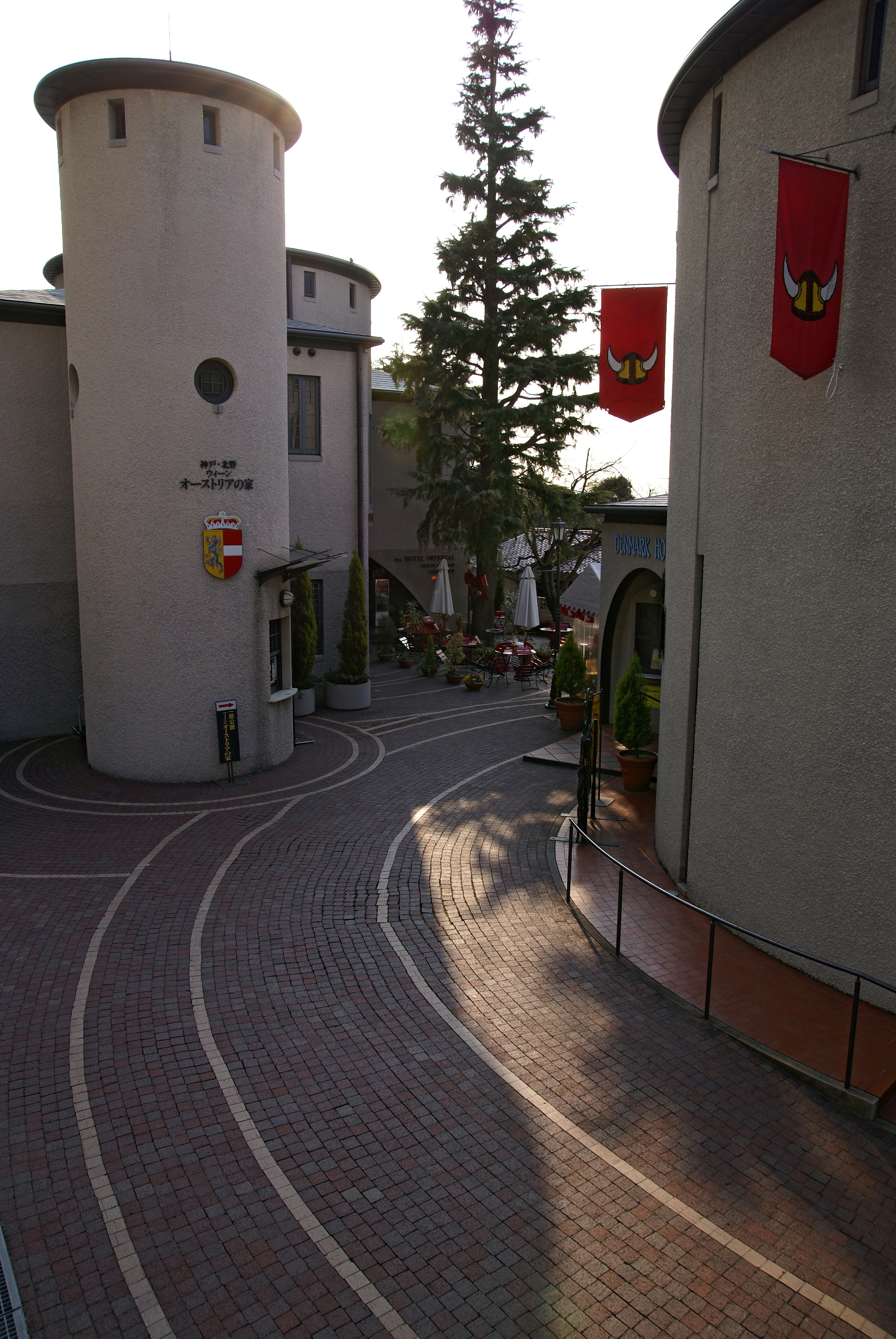 Austrian House and Denmark Museum in Kobe, Hyogo prefecture, Japan